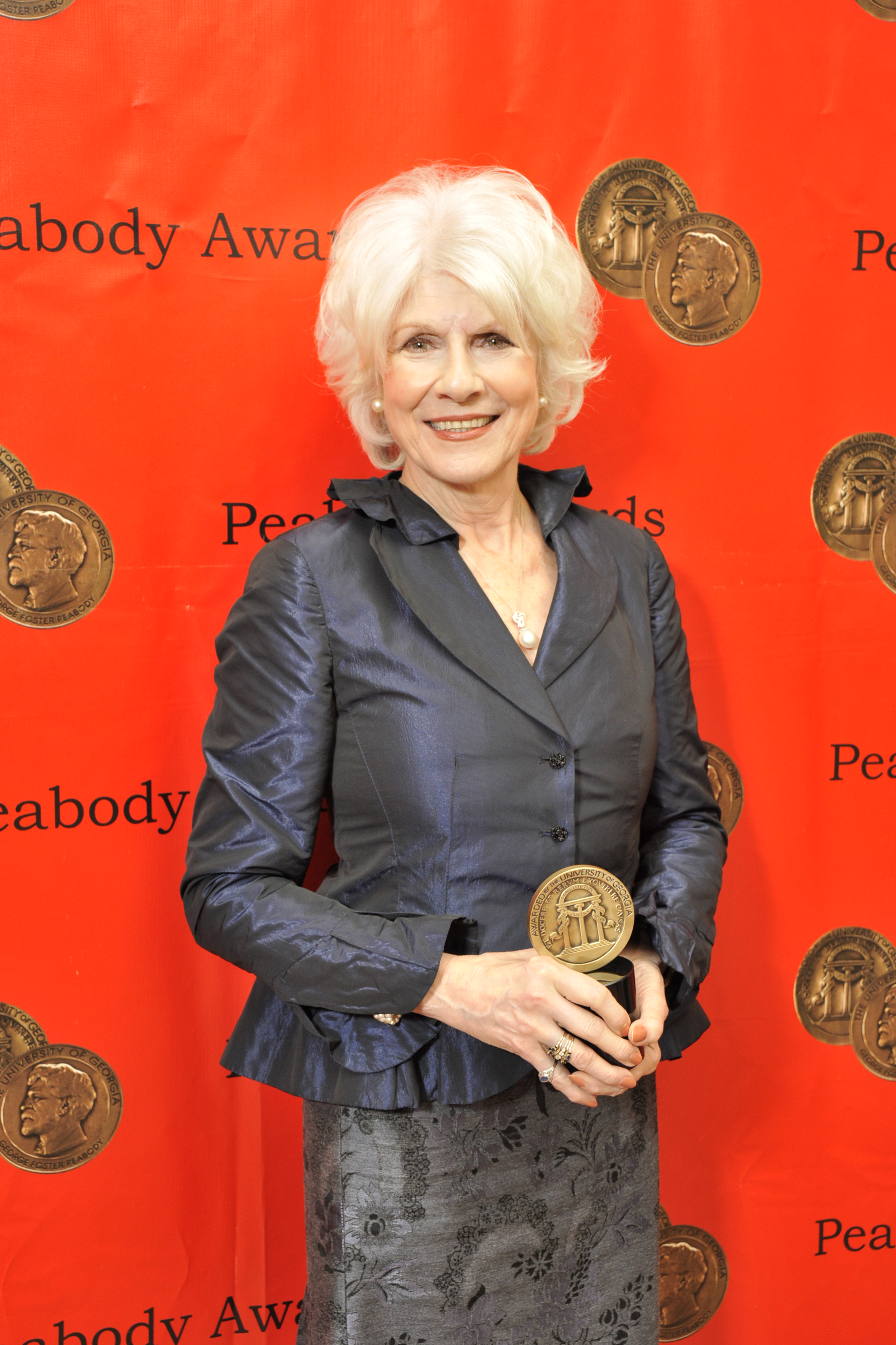 69th Annual Peabody Awards Luncheon Waldorf=Astoria Hotel New York, NY USA May 17, 2010